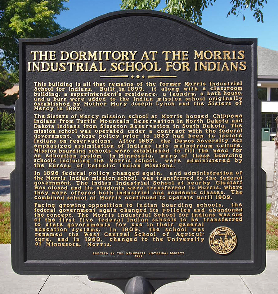 Historical marker, Morris Industrial School for Indians Dormitory, University of Minnesota Morris, Morris, Minnesota, USA. Viewed from the south.